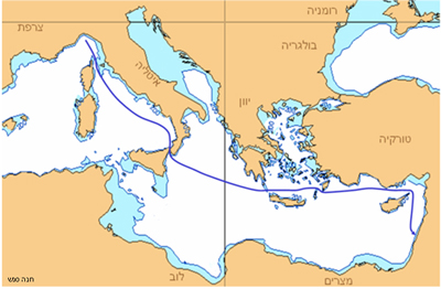 Route of immigrant ship Hannah Szenes